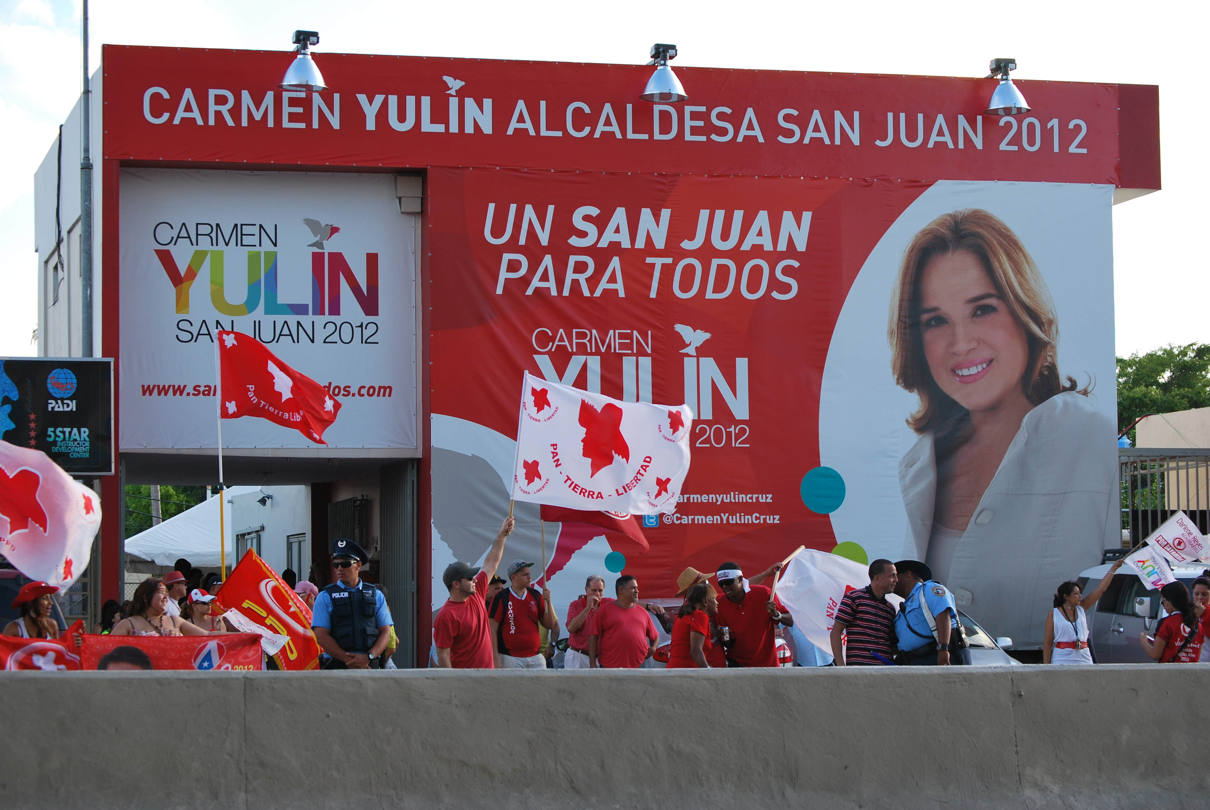 Carmen Yulin Cruz campaign headquarters in San Juan, Puerto Rico